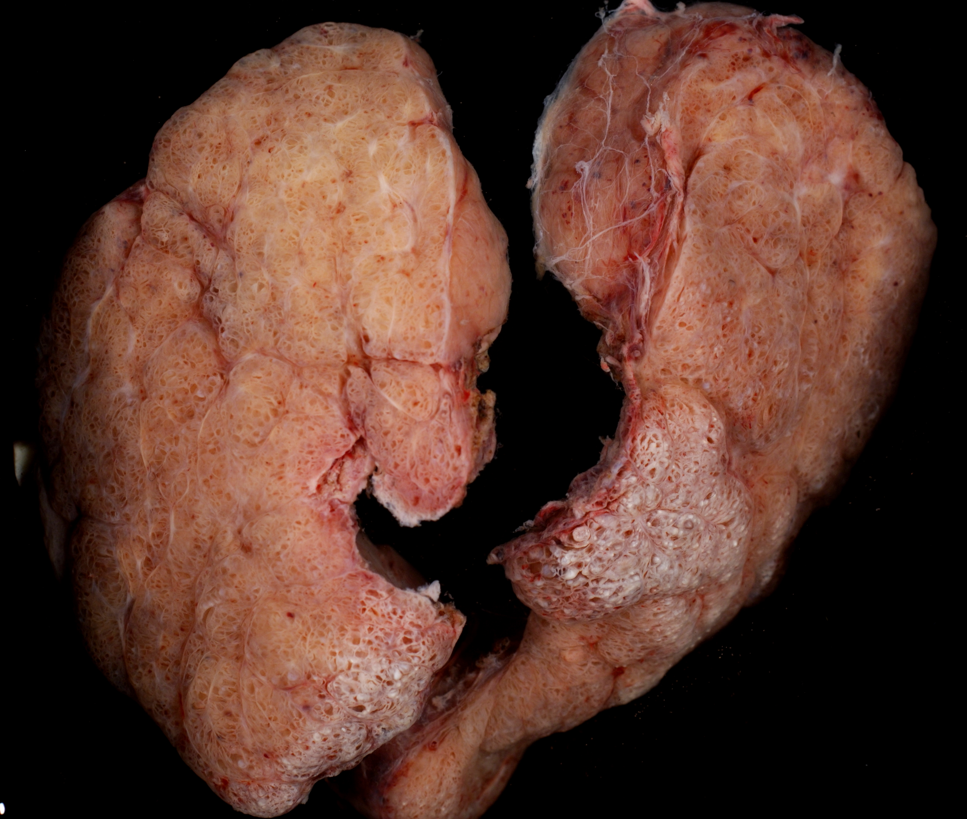 Immersed in absolute alcohol, the cut surface of this specimen demonstrates the follicular architecture very nicely. Choose the "Original" size to really see the detail. Pathological and histological images courtesy of Ed Uthman at flickr.